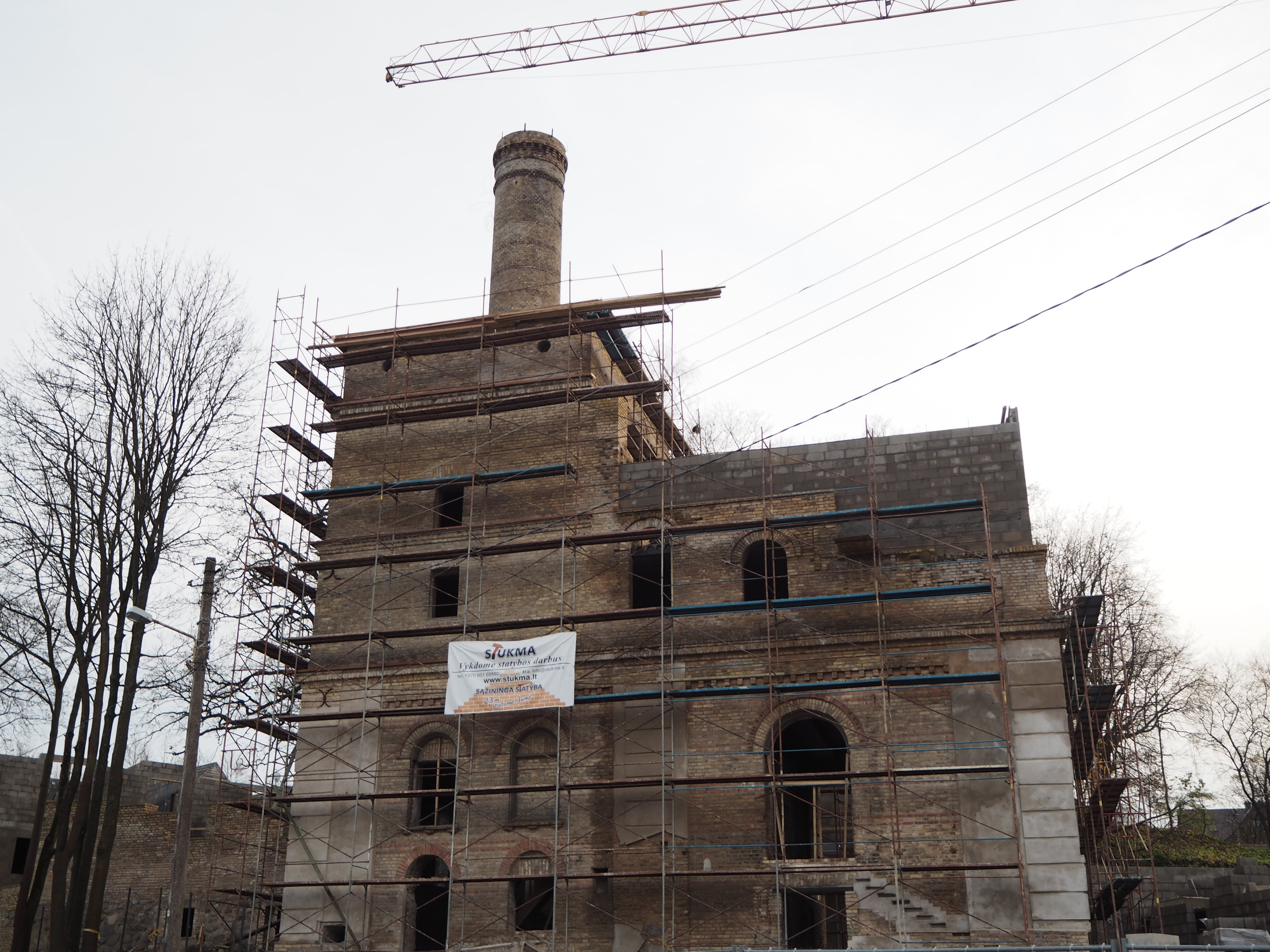 Buildings of former Epstein's brewery in Vilnius during the conversion to studio apartment building.